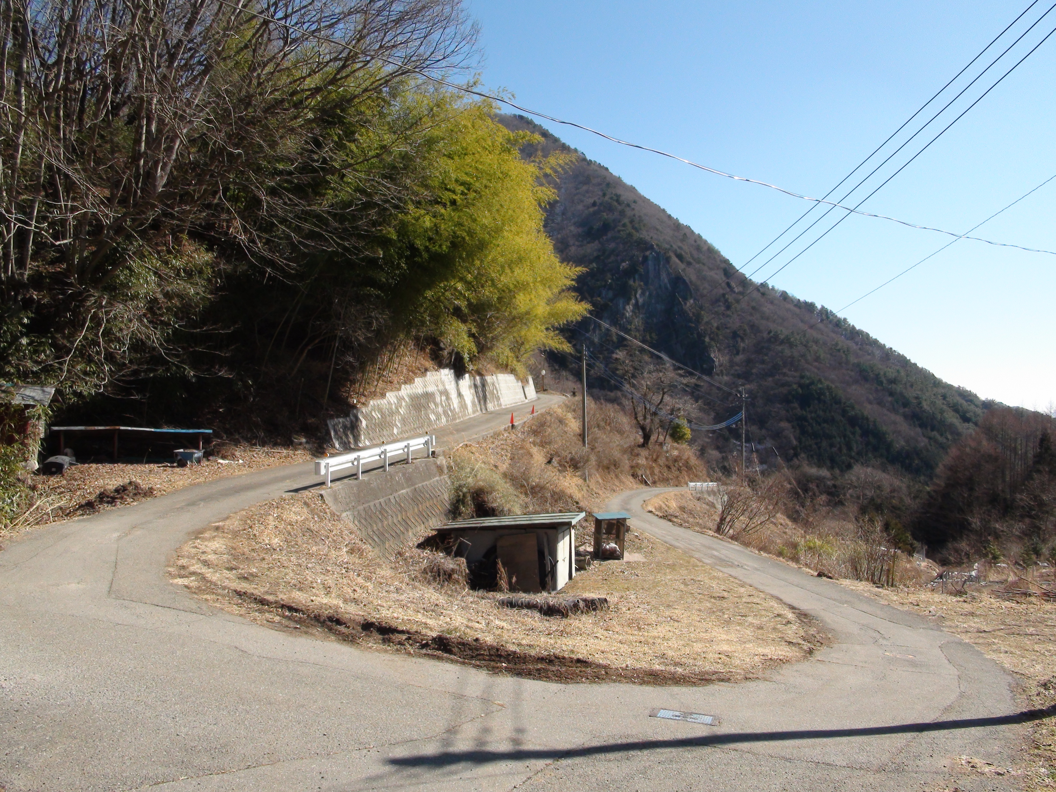 The Japanese movie "A Rhyme of Vengeance" (Japanese original title "Akuma no temari-uta" ) location site in 1977, Rokudo-no-tsuji. The GPS data removed it intentionally.